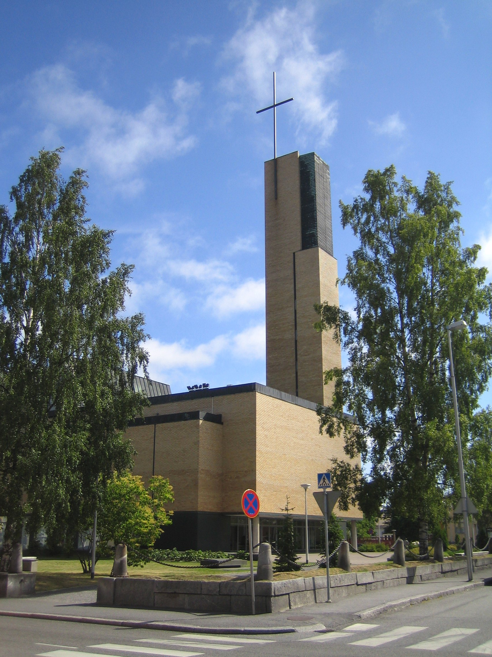 Lutheran church, Kokkola, Finland.